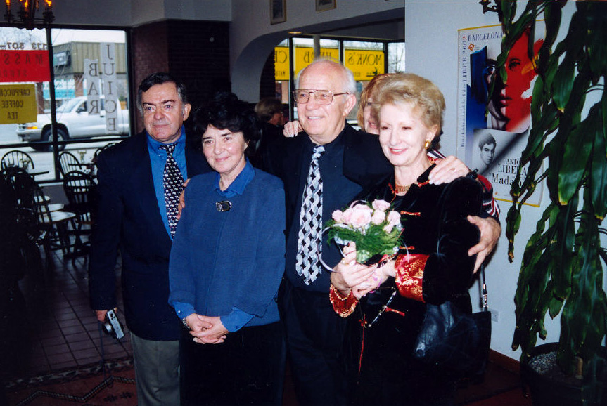 Meeting in Polonia Bookstore in Chicago Author Peter Domaradzki